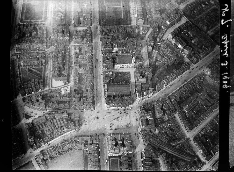 A picture of Sloane Square taken by scientist Sir Norman Lockyer in 1909 from a Helium balloon